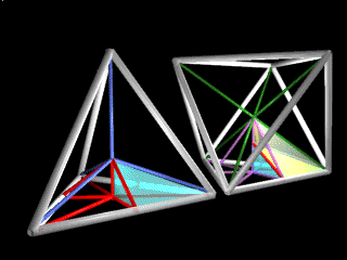 A and B Modules by Richard Hawkins, permission granted to use Free Art License per this web page.